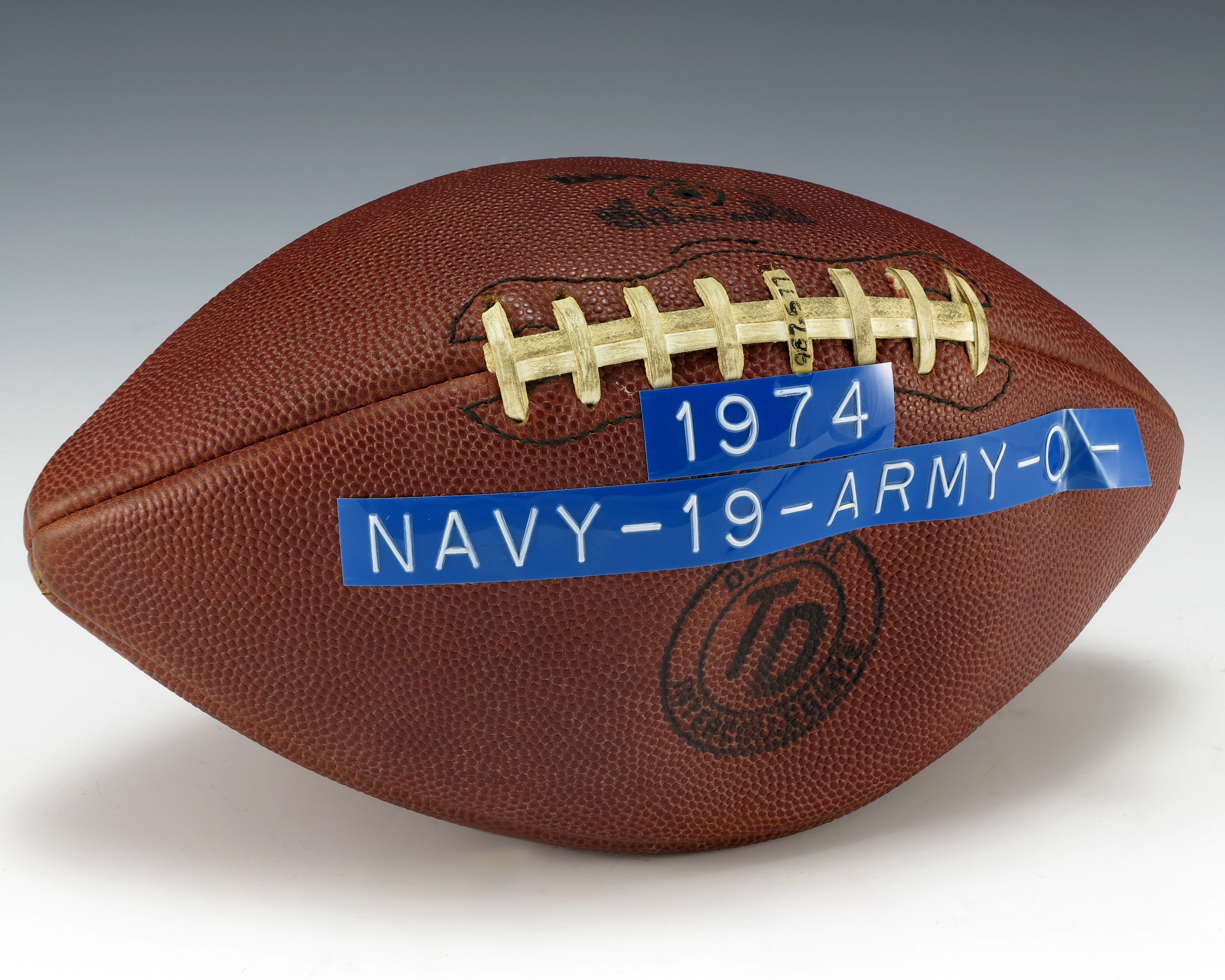 Game football used in the 1974 Army-Navy game. Adhered to the football a blue label with white lettering reveals the game’s final score (Navy 19, Army 0).